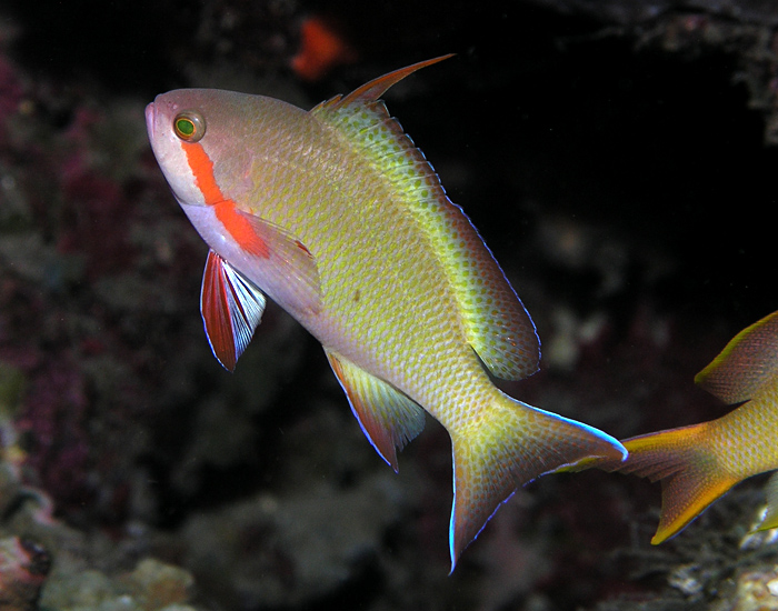 Male Threadfin anthias, (Pseudanthias huchtii).